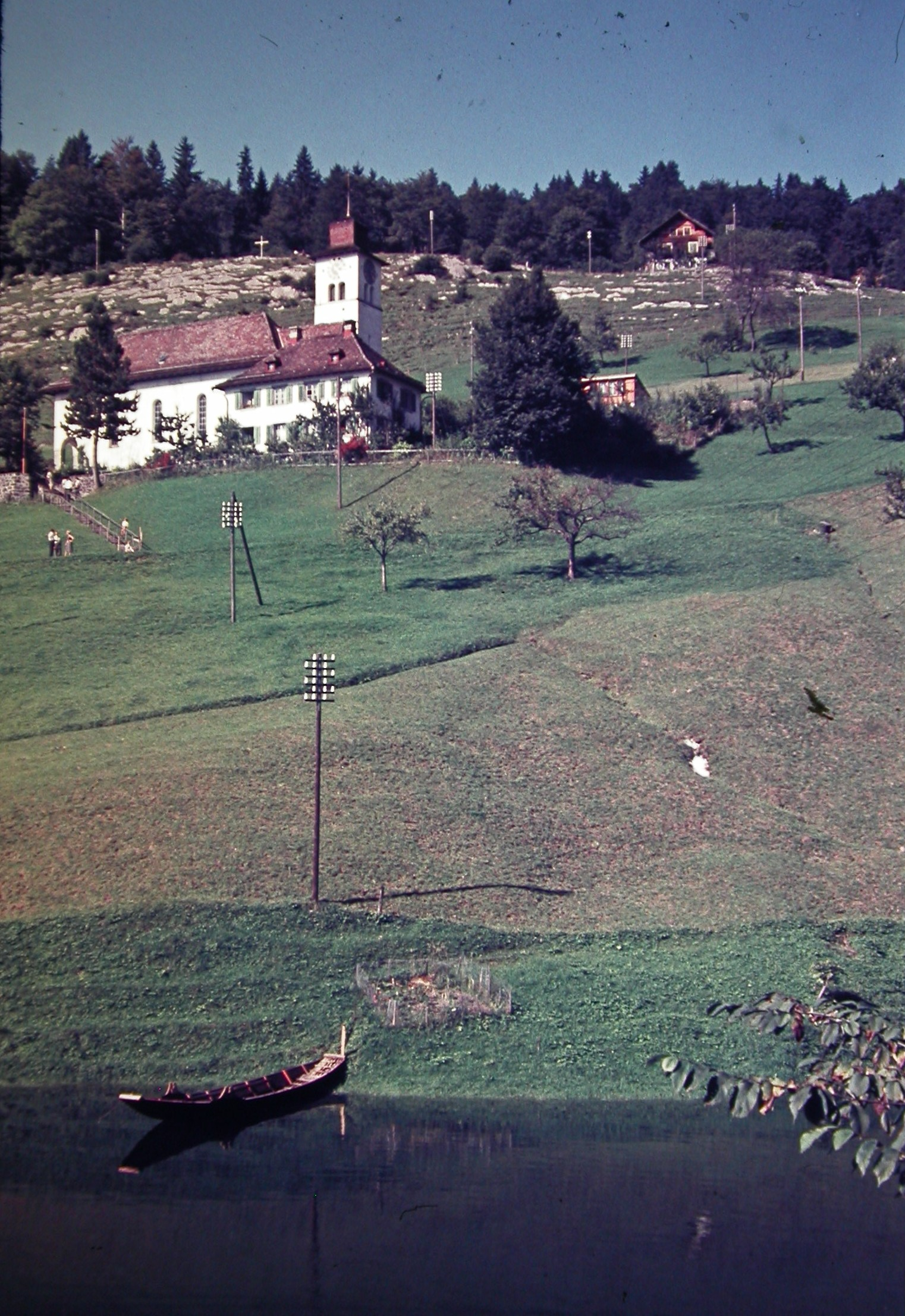 View of Wägitalersee at Innerthal and Church St. Catherine